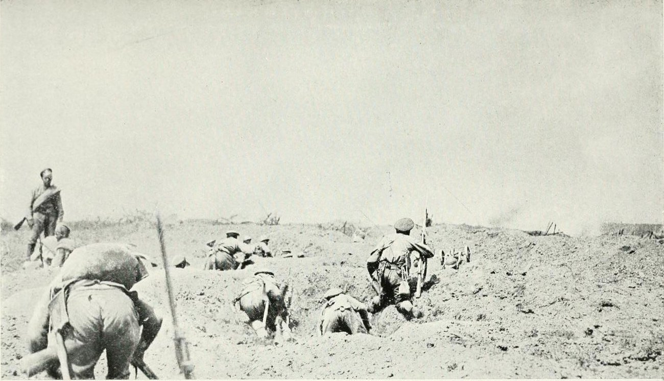 Attack of the 47 Siberian rifle regiment near Dzike-Lany. 1 July 1917.